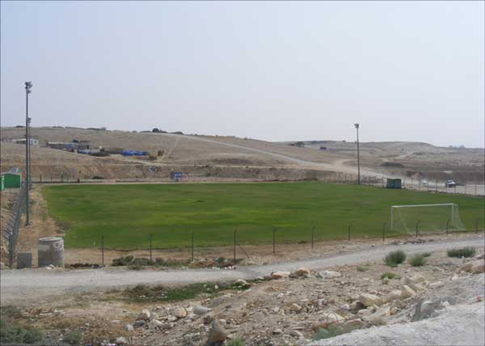 Sports in Israel